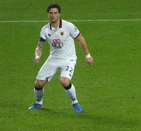 Manchester United v Watford (2-0), Premier League, Old Trafford, Manchester, Greater Manchester, England, 11 February 2017